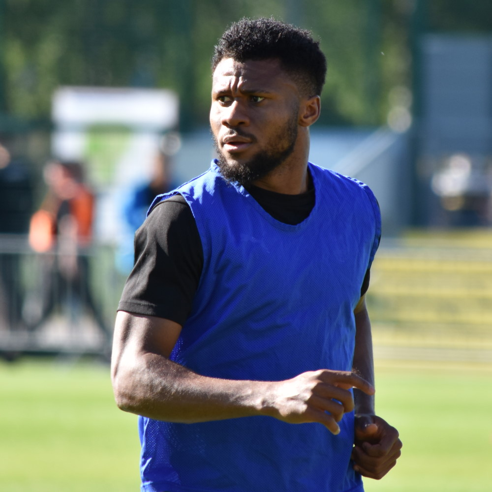 Assoaction football player Aniekpeno Udoh with KuPS in 2020.